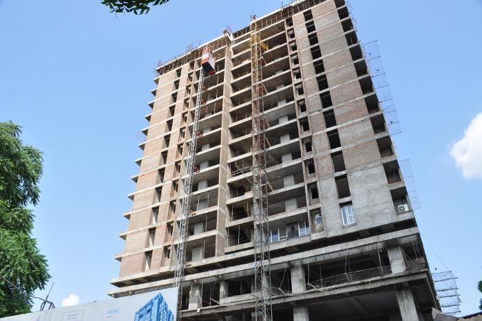 Under Construction Building